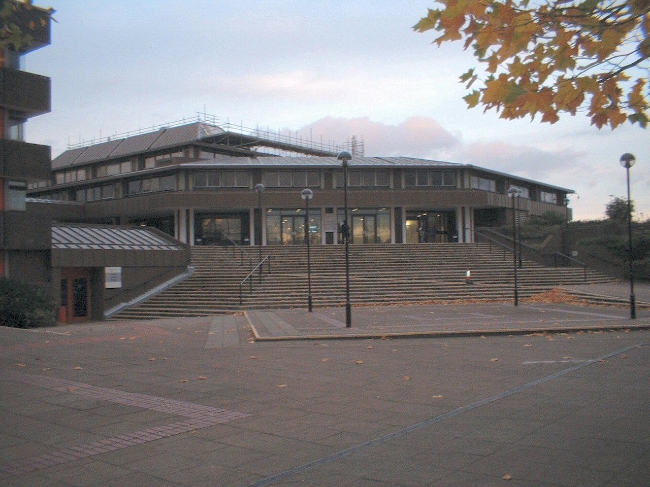 Kenrick library, UCE Birmingham, front entrance, image lightened to adjust for cloudy weather